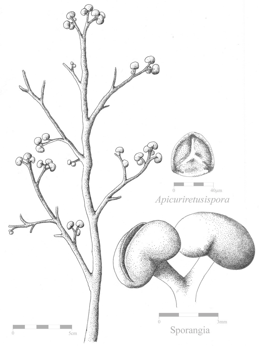 Artistic reconstruction of the Lower Devonian type plant Renalia described from fossil remains in Quebec. The upright form and monopodial branching of the cylindrical aerial stems is shown along with the terminal reniform sporangia. Next to the main drawing there are drawings of two sporangia and of a spore of the genus Apicuriretusispora, usually assigned to this species. A separate scale is given for each of the three elements.